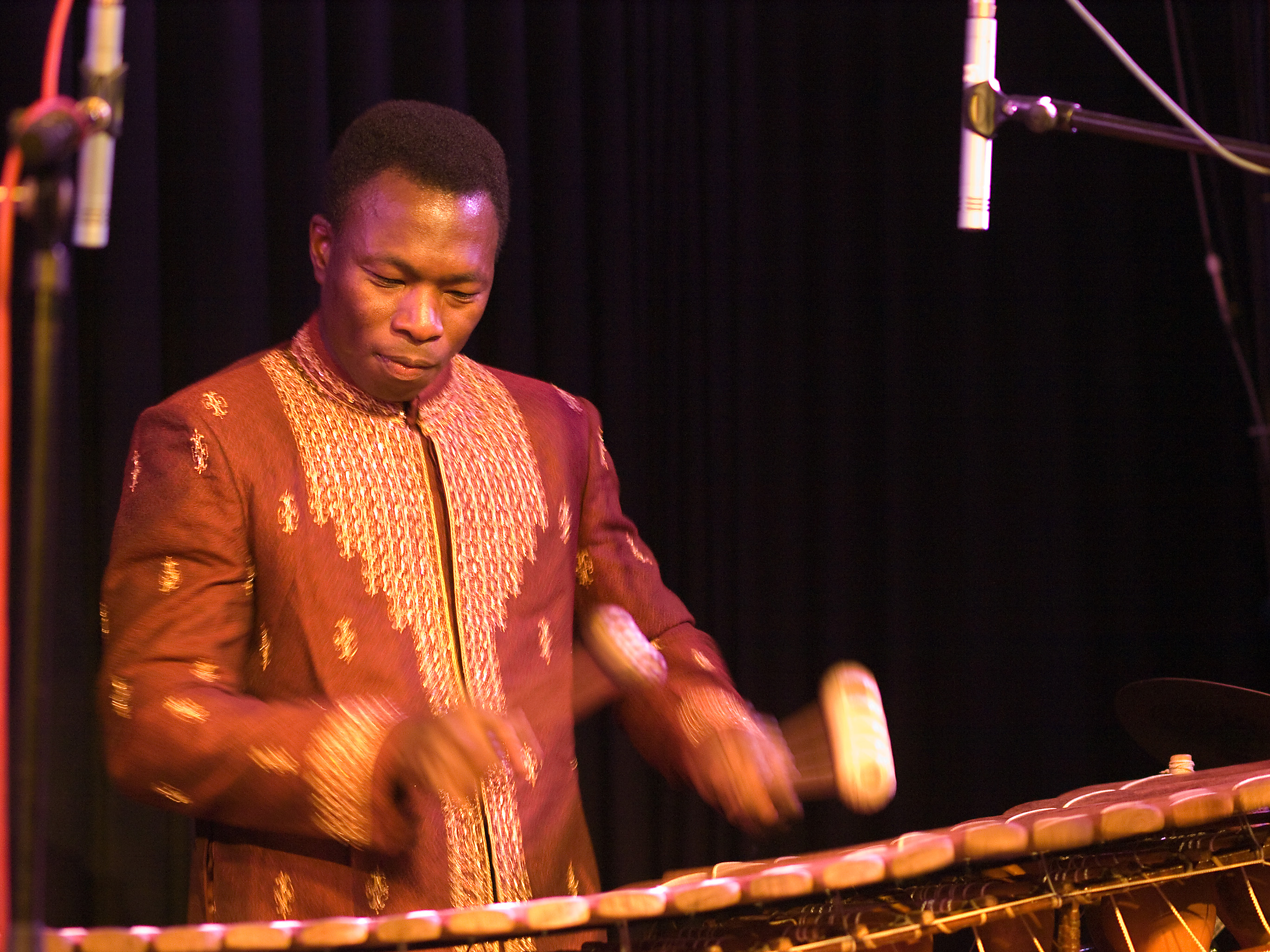 Aly Keita plays Balafon , Picture taken in Jazz Club Unterfahrt Munich/Bavaria